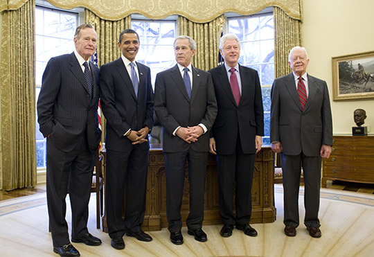 Then President of the United States of America, George W. Bush invited then President-Elect Barack Obama and former Presidents George H.W. Bush, Bill Clinton, and Jimmy Carter for a Meeting and Lunch at The White House. Photo taken Wednesday, Jan. 7, 2009 in the Oval Office at The White House.